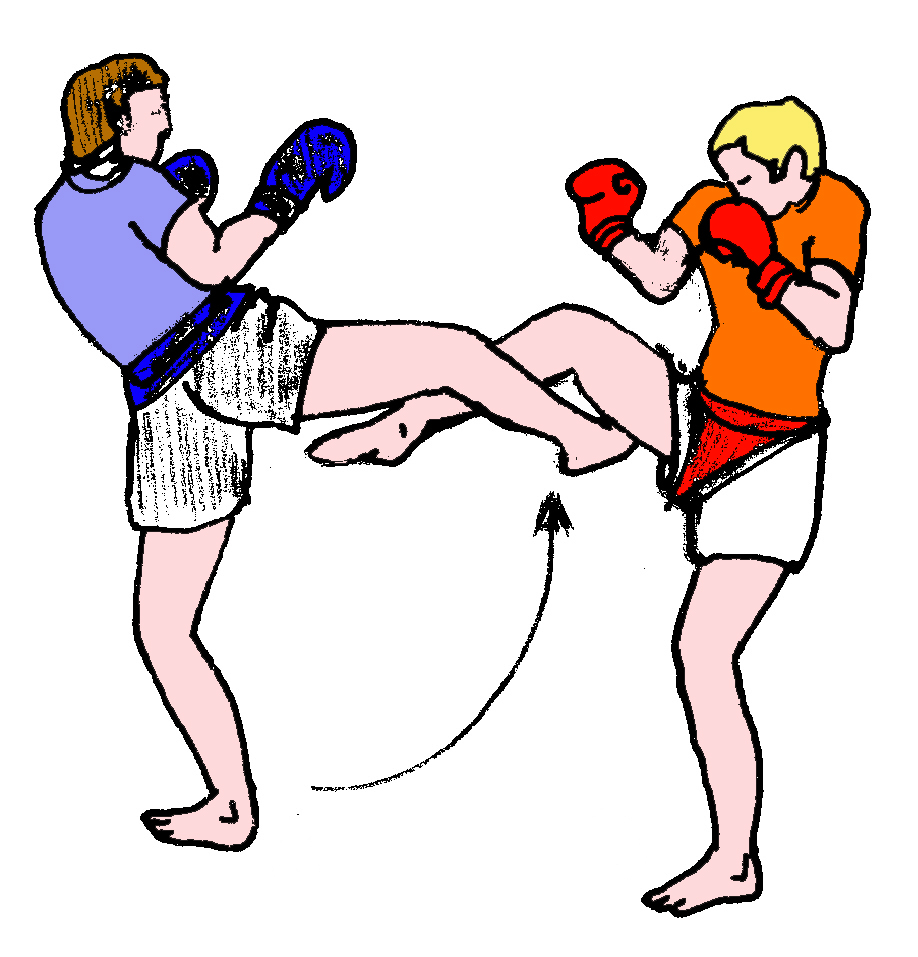 Counter-attack